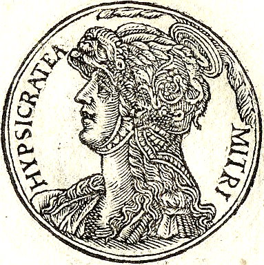 Hipsicratea, Queen of Pontus, ruled a confederacy of states with King Mithridates.